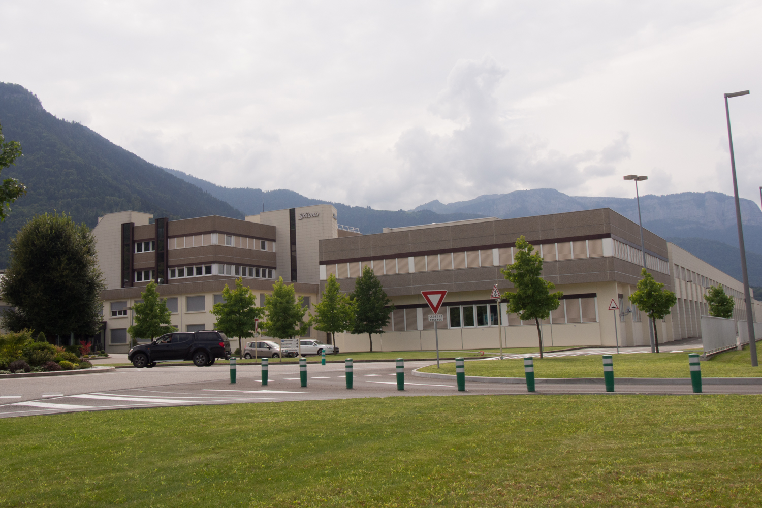 Sight of the Stäubli company producing site, in Faverges, in Haute-Savoie, France.